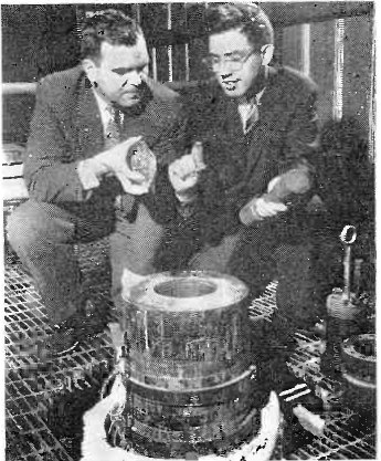 R. A. Sullivan and R. A. Ladice examining synthetic quartz crystals grown in the autoclave shown in Western Electric's pilot hydrothermal quartz plant in North Andover, Massachussetts in 1959. Until WW2, quartz crystals used in electronic equipment were natural crystals, mined in Brazil. Shortages due to military demand for quartz led to postwar efforts to culture synthetic quartz crystals. AT&T's Bell Labs first developed a process that was capable of industrial production, growing quartz crystals at high pressure and temperature in the autoclave shown. By the 1970s virtually all quartz used in the electronics industry was synthetic.